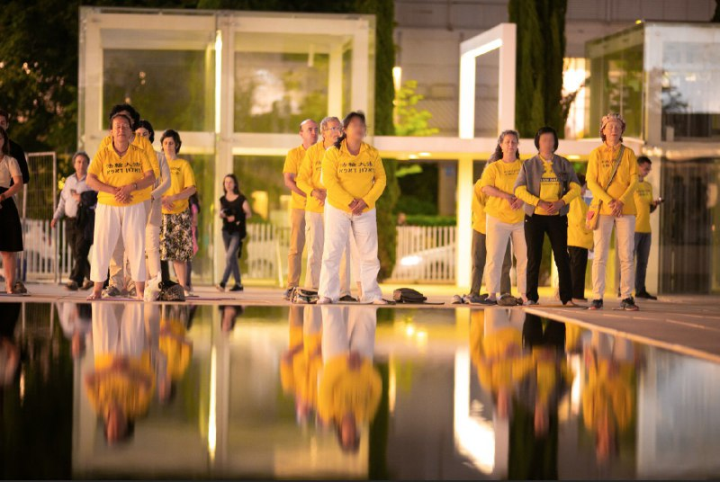 Falun Gong practitioners in Habima Tel Aviv